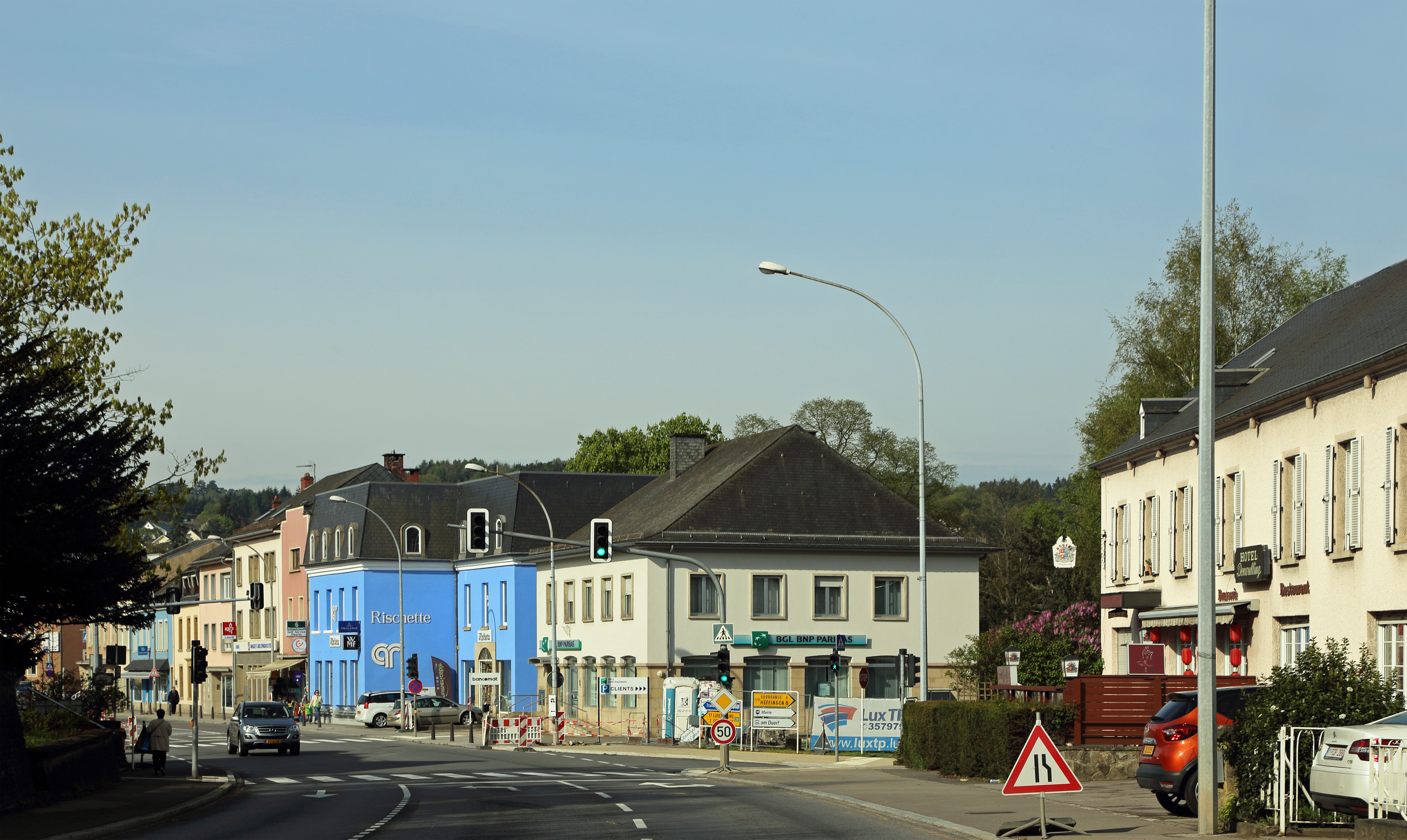 Junglinster (Grand Duchy of Luxembourg): the village, with the Route d'Echternach (foreground) an d the Route de Luxembourg (beyond the crossing)